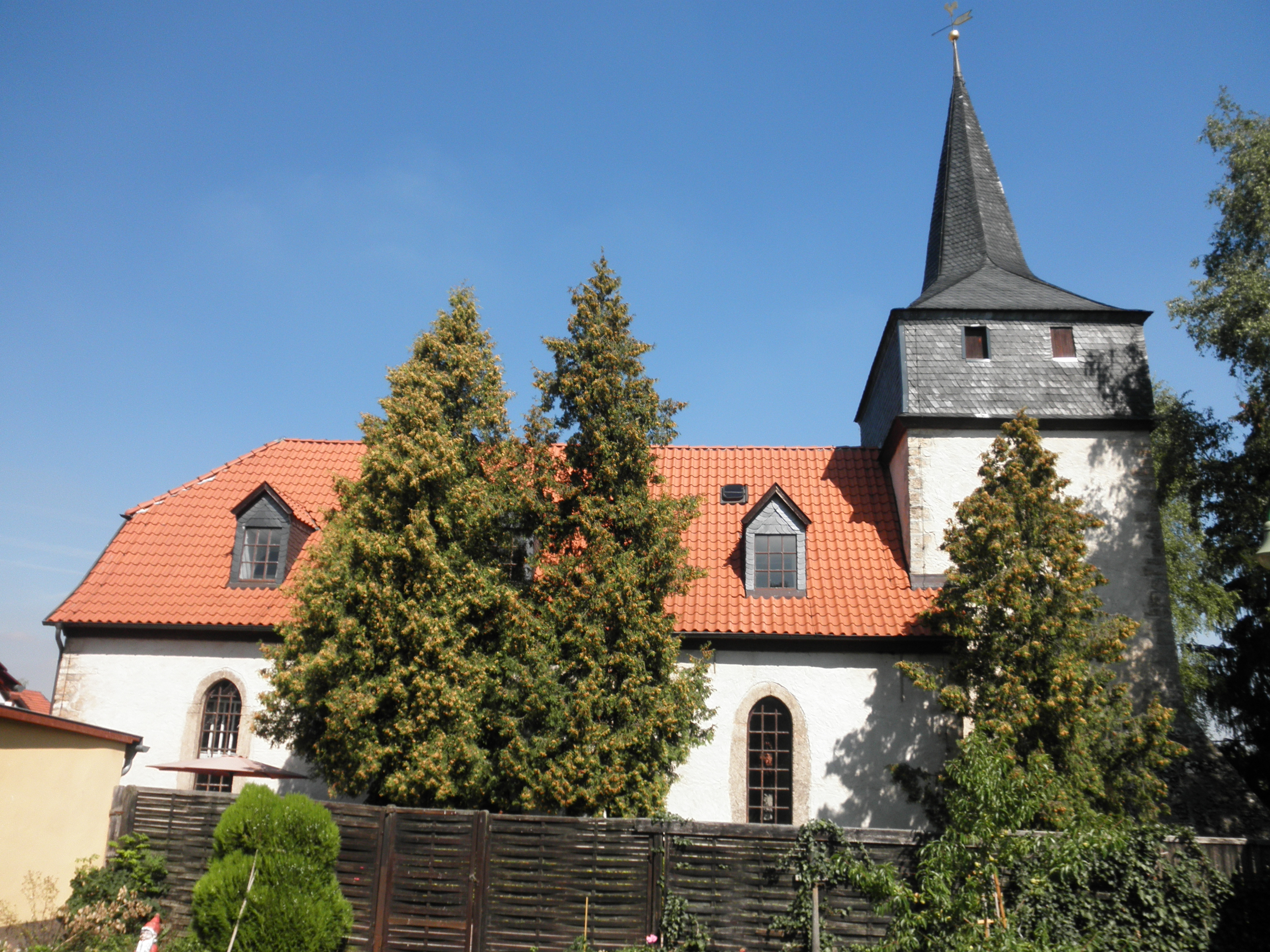 Church in Klettstedt in Thuringia